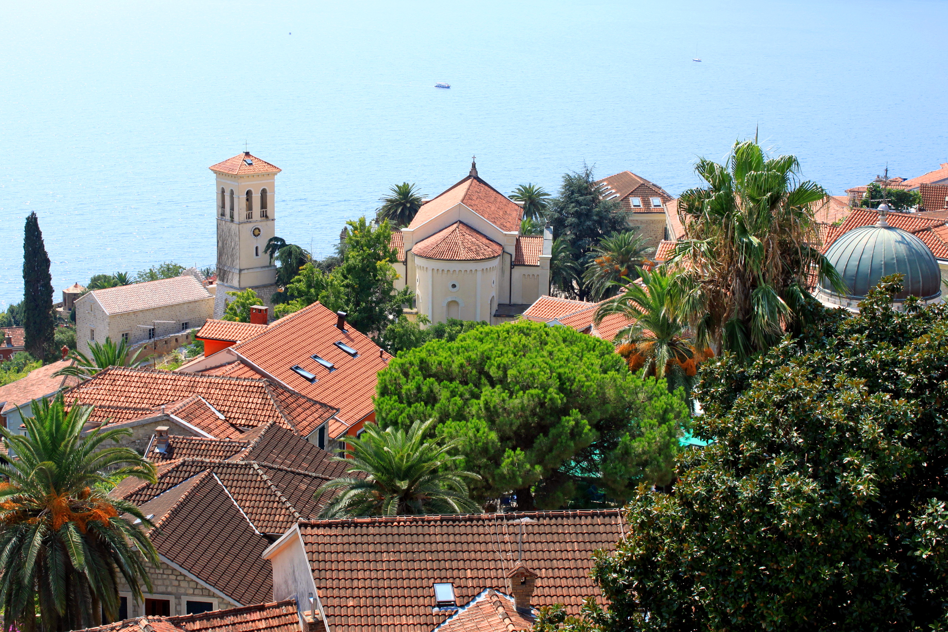 The views from the Kanli Kula fortress on the city. Herceg Novi, Montenegro.